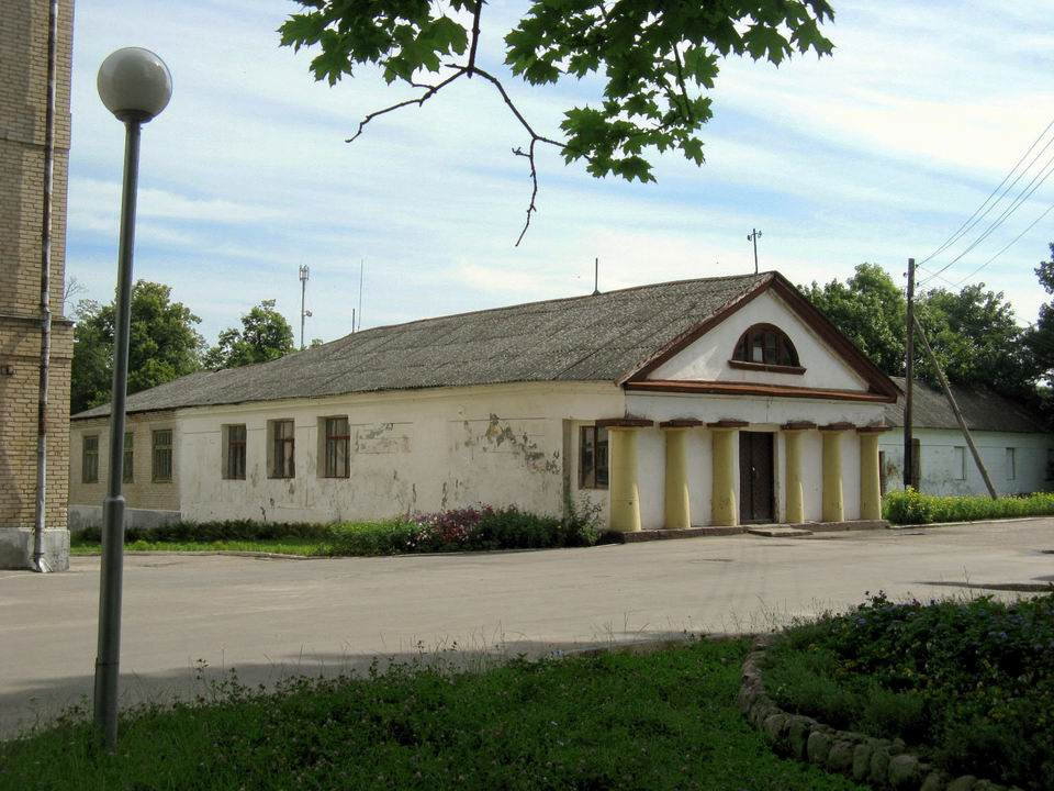 His story about the High, I'll start with the estate, which is located in the city. Vysokovsk estate - a monument of classical architecture, formed in the XVII-XIX centuries. on the right bank of the river Pulva. The left wing (the beginning of XIX c.)